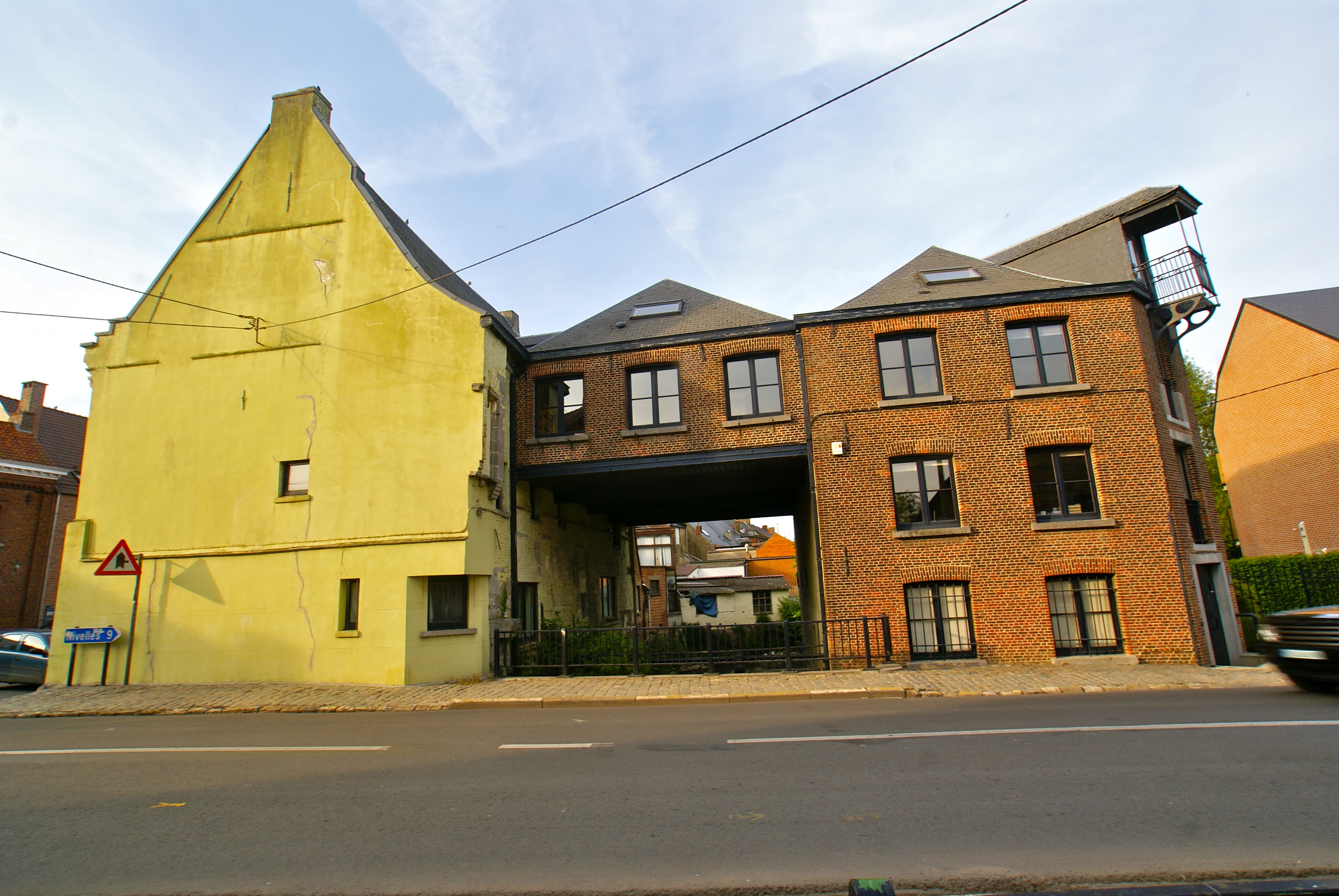 Braine-le-Comte (Ronquières), Belgium: Side of the water mill on the river Sennette